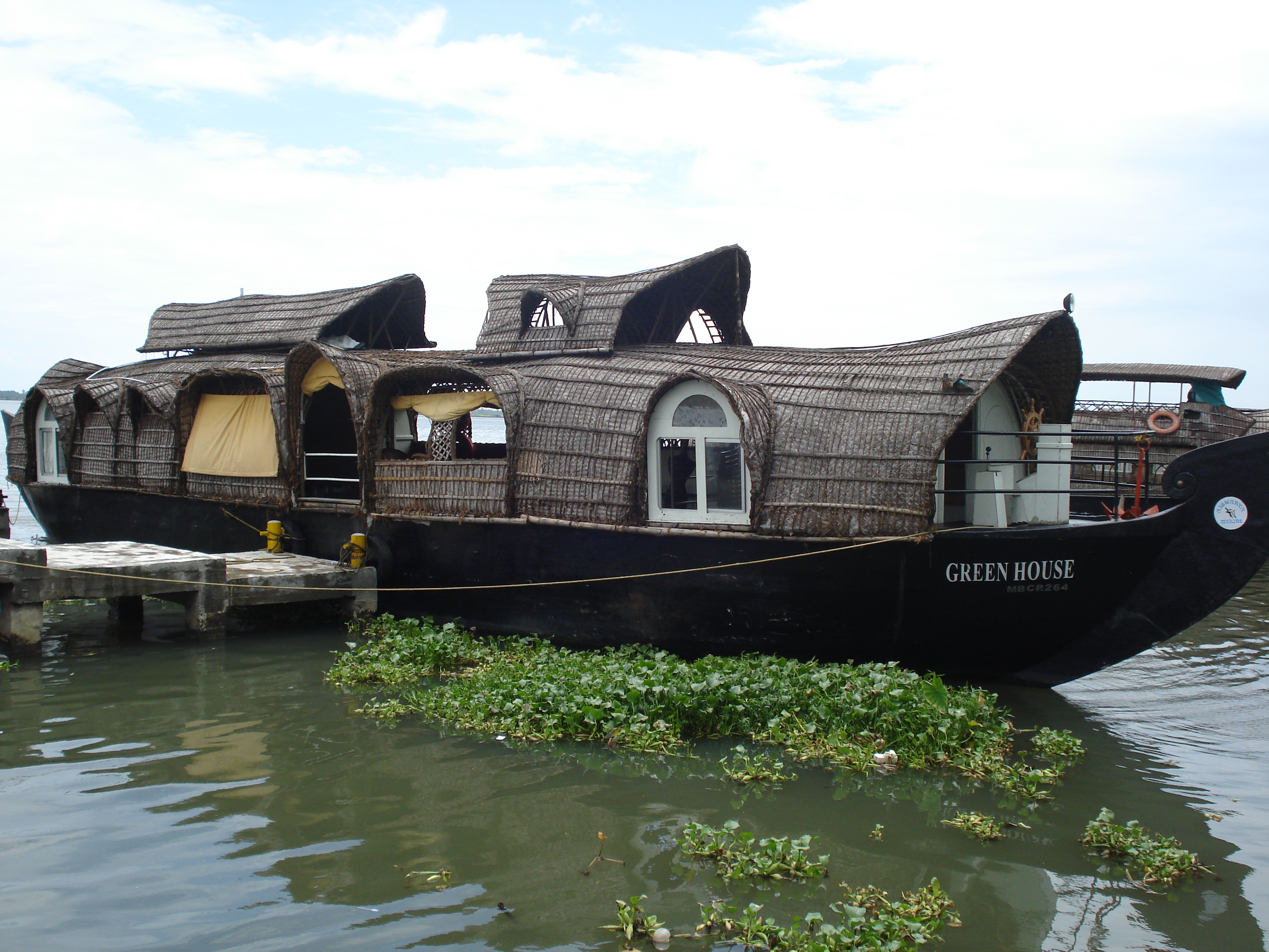 House boat